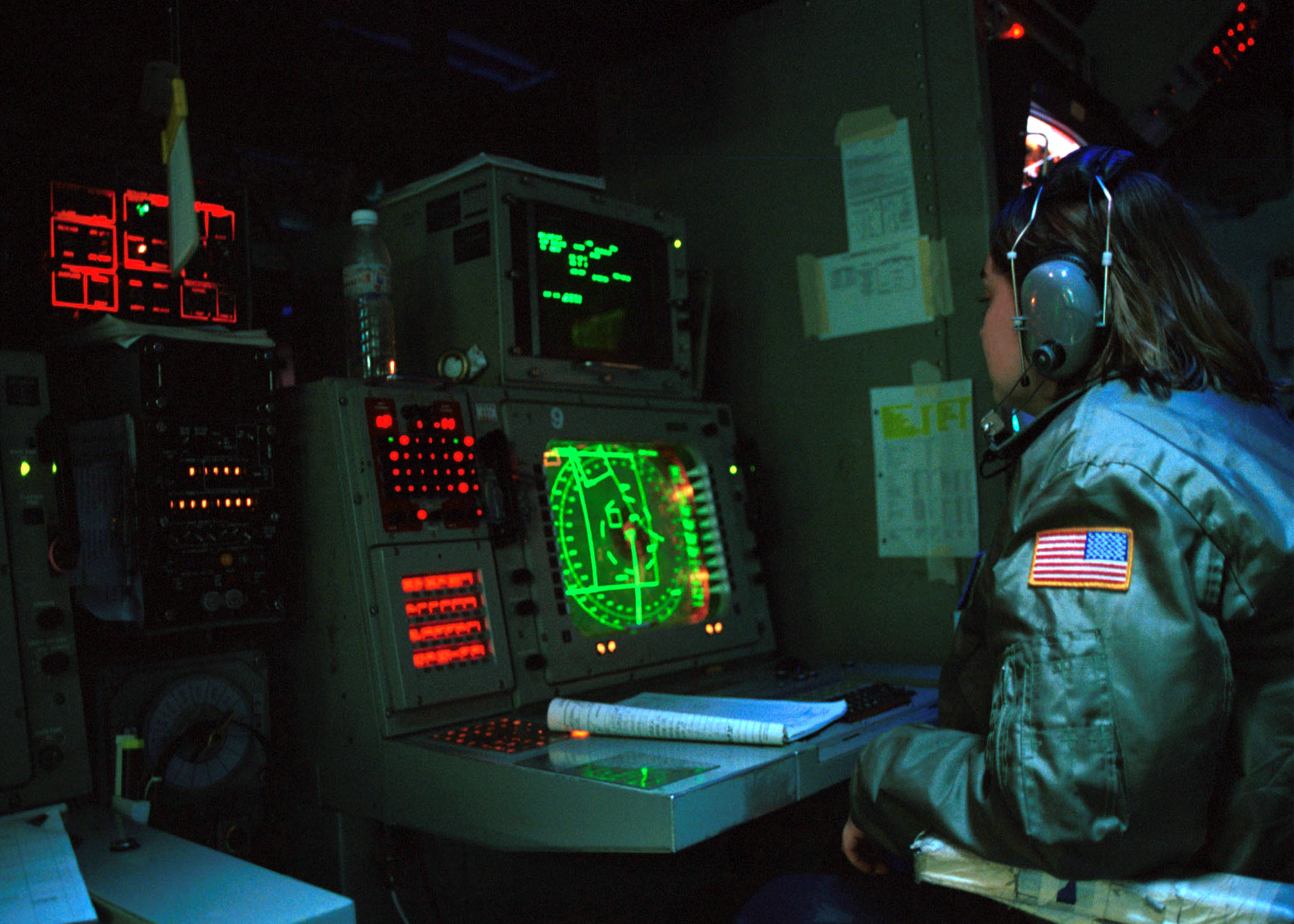 At sea aboard USS Carl Vinson (CVN-70) Oct. 11, 2001 -- A watchstander mans her station in the Combat Information Center (CIC) aboard USS Carl Vinson aircraft carrier. The Vinson is conducting flight operations in support of Operation Enduring Freedom.